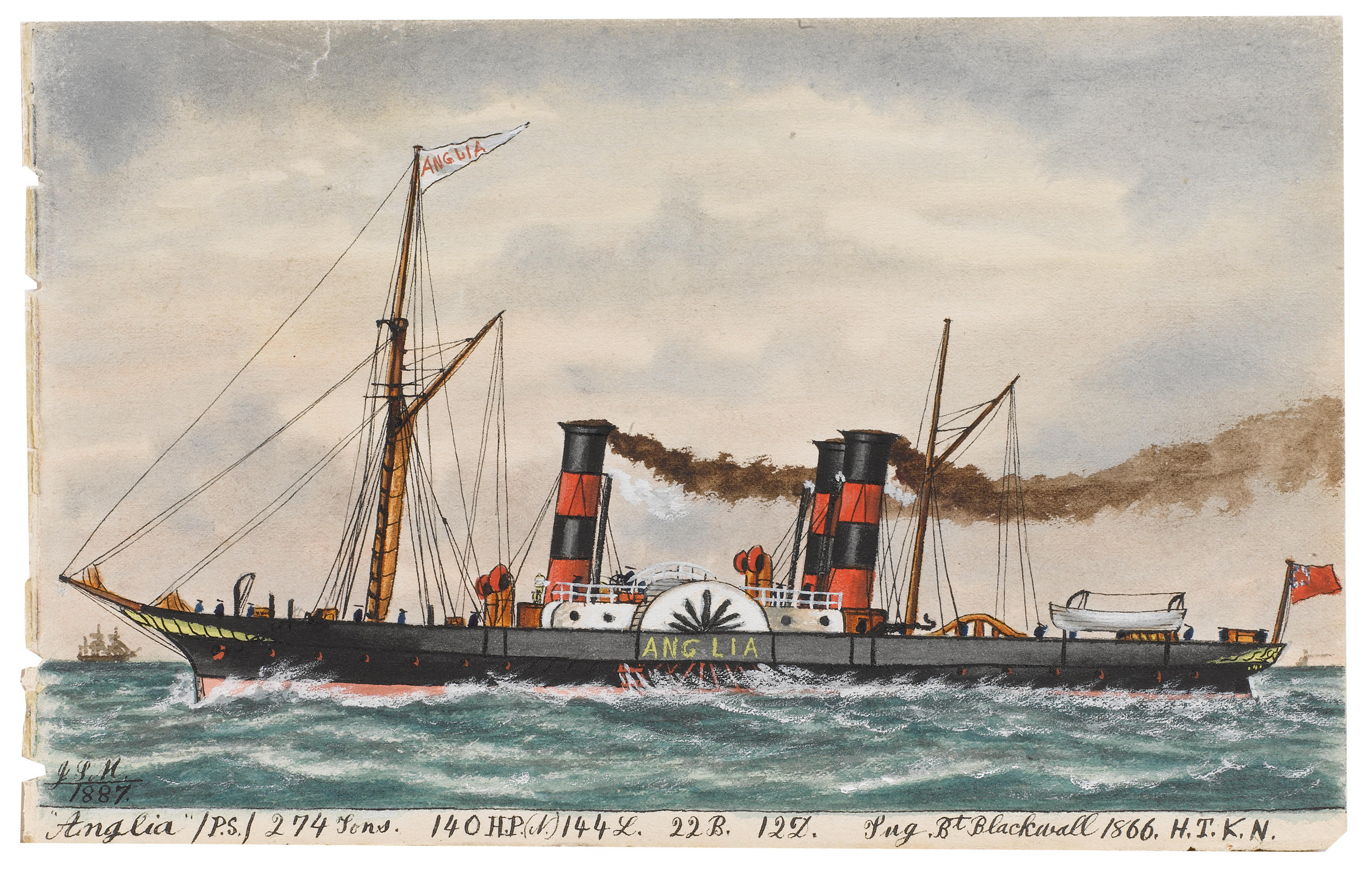 James Scott Maxwell - PS tug Anglia Watercolour, heightened with white and Indian ink. 9x5.5in (23x14cm) with manuscript annotations at the foot by Maxwell Watkins Ltd paddle tug Anglia also known as "three fingered Jack" - the tug which brought Cleopatra's needle to London from Ferrol, Spain Built 1866 by Thames Ironworks Ltd., Blackwall. Iron Paddle Tug. L144.4'. B22.2'. D12.4'. 275grt. 700ihp 2cyl 38"x 60"Stewart superheated side lever steam engine bby John Stewart and Son, London. . 3 boilers, 3 funnels. Coal cap 90 tons. Acquired 1866. Disposed 1894. Official No. 54745. Call sign HTKN.